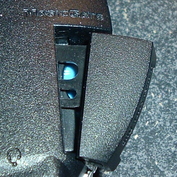 Summary Me, I took it Bild:Pspmemcard.JPG